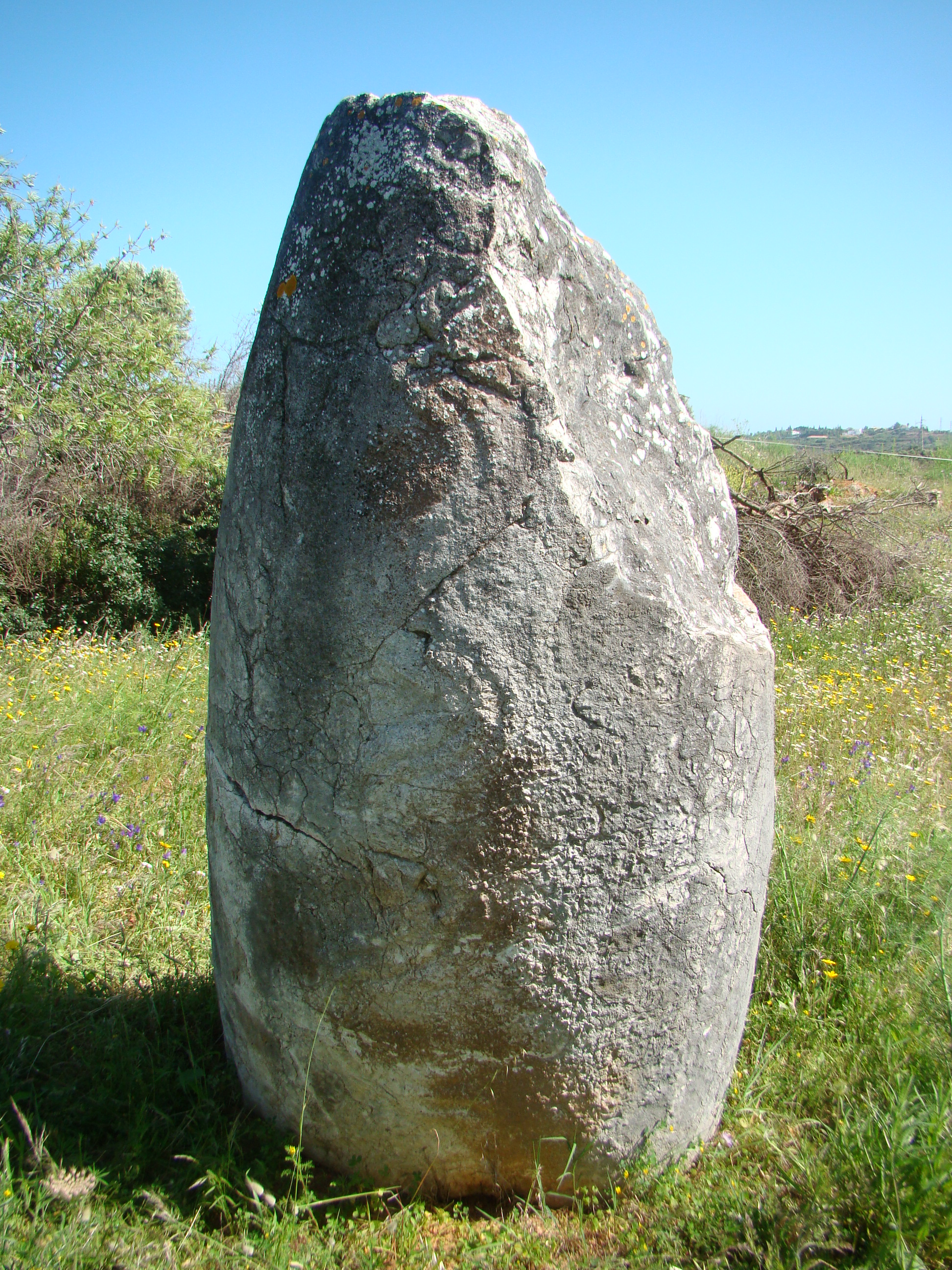 Menir da Cabeça do Rochedo, 6 kms north of Lagos, Algarve. It is surrounded by a quarry and agricultural land. It is accessible by a steep road just outside of Portelas. Photo taken on 10/04/2018